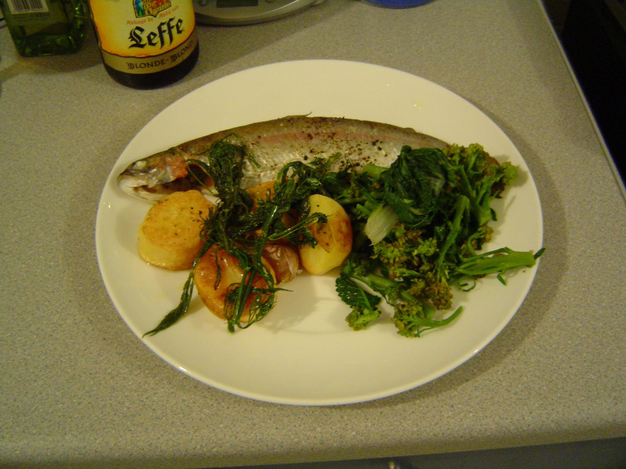 Baked Trout with dill, purple sprouting brocolli and baked potatoes. Sony Cybershot DSC-P72